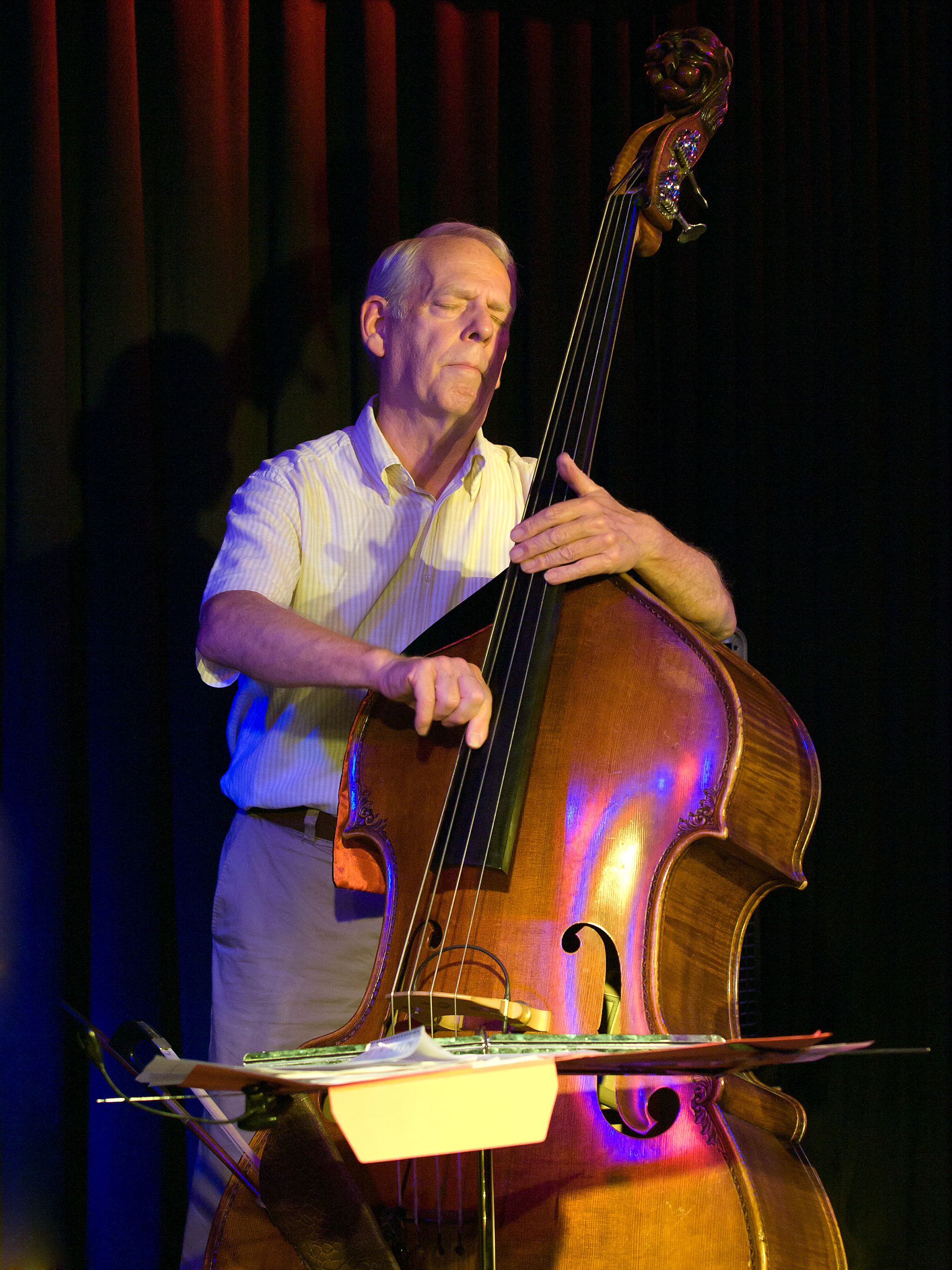 Gary Todd, Jazz bassist; Picture taken in Jazz Club Unterfahrt, Munich/Bavaria